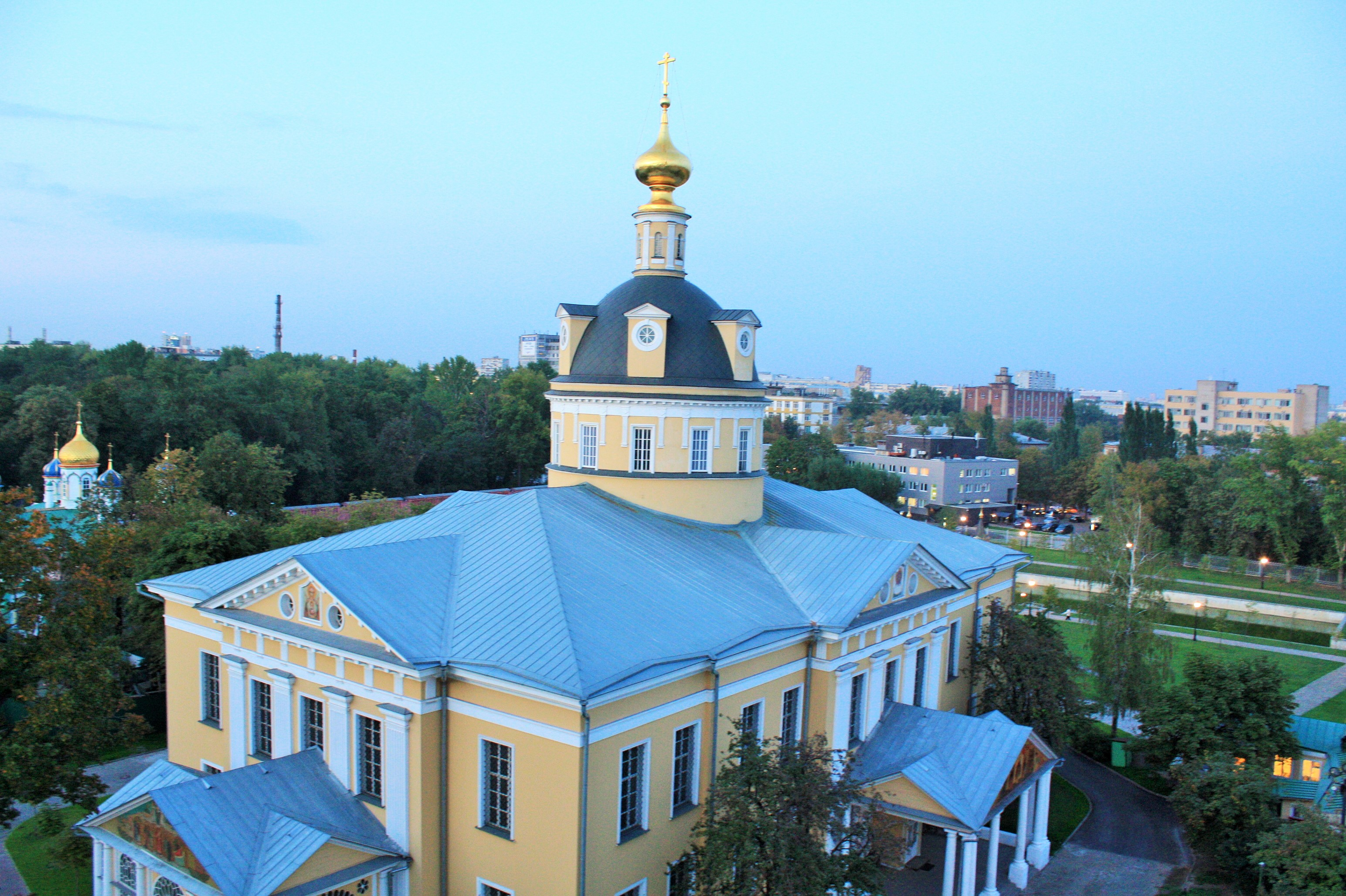 . Рогожское